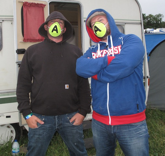 Stalker and Paul go Altern-8 Fans of the british techno band Altern 8